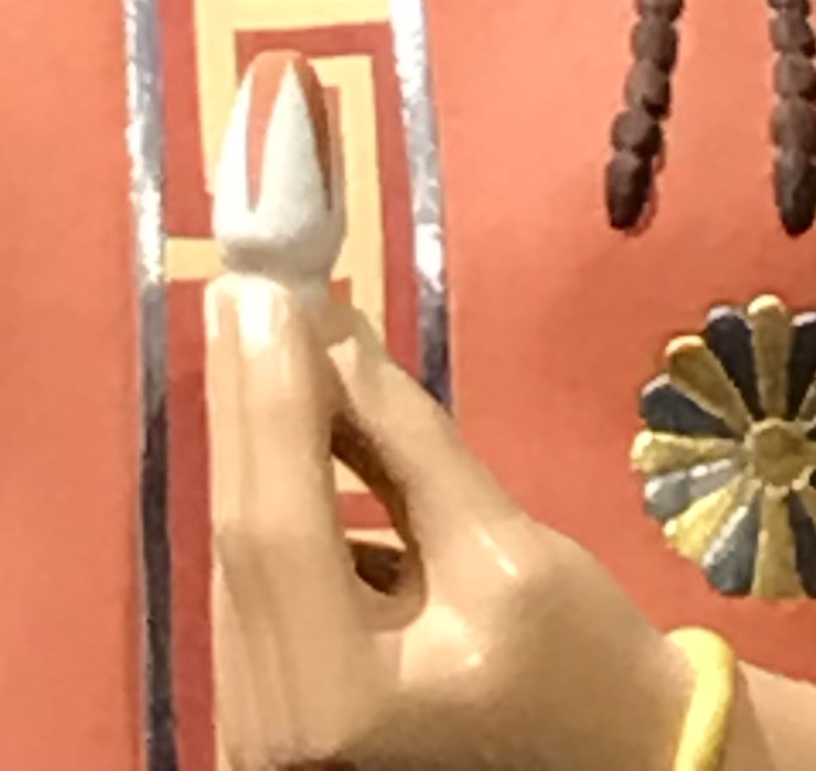 Phrasikleia Kore lotus flower bud. Photo: courtesy of Brigid Powers 2017, from Gods in Color San Francisco, CA.